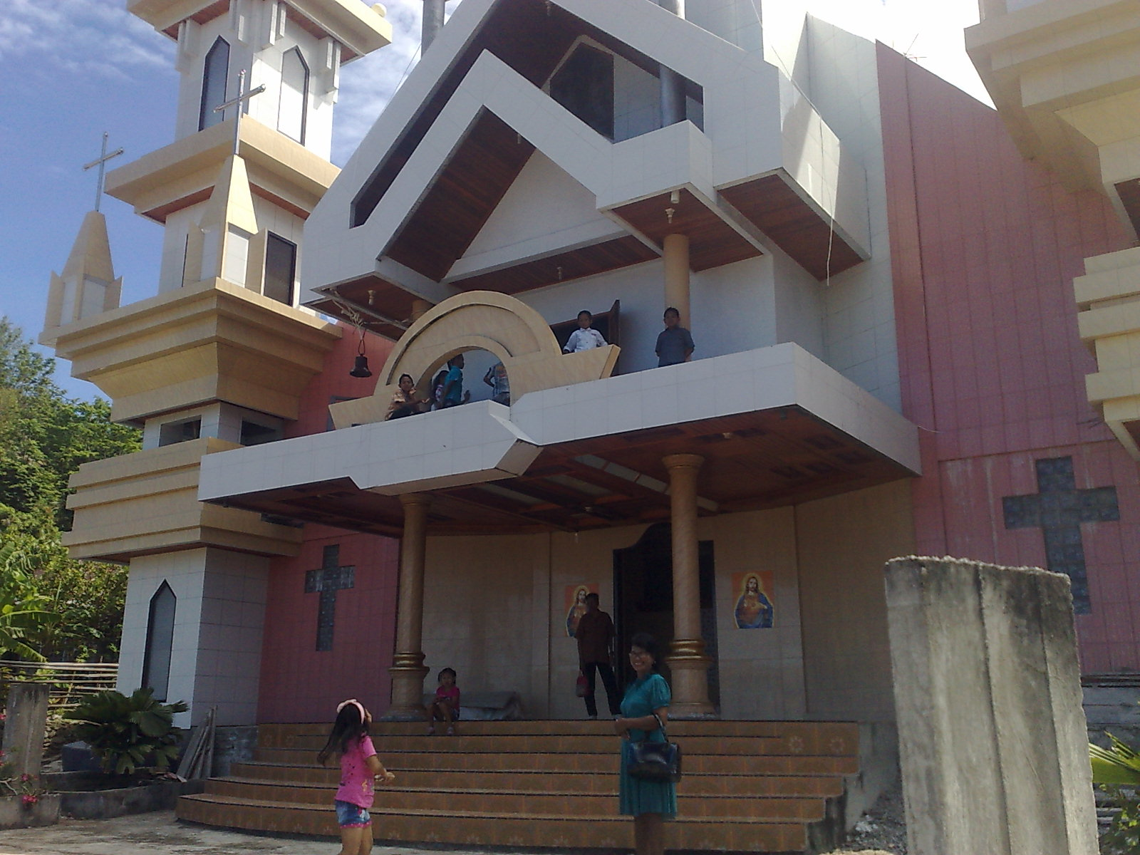 GMIST Jemaat Bethel Buang Church at Biaro Island